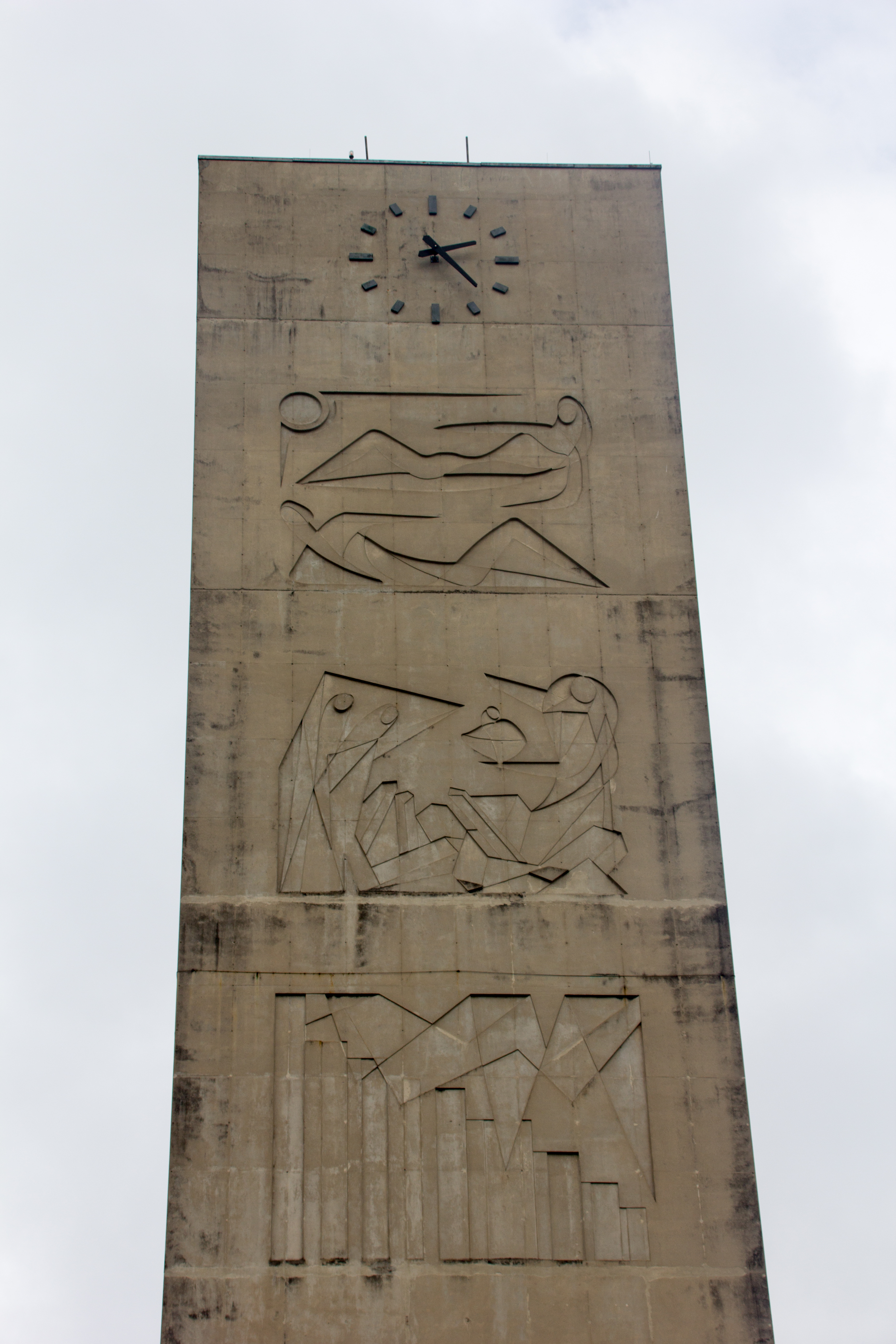 Torre do Relógio University of São Paulo, São Paulo, Brazil